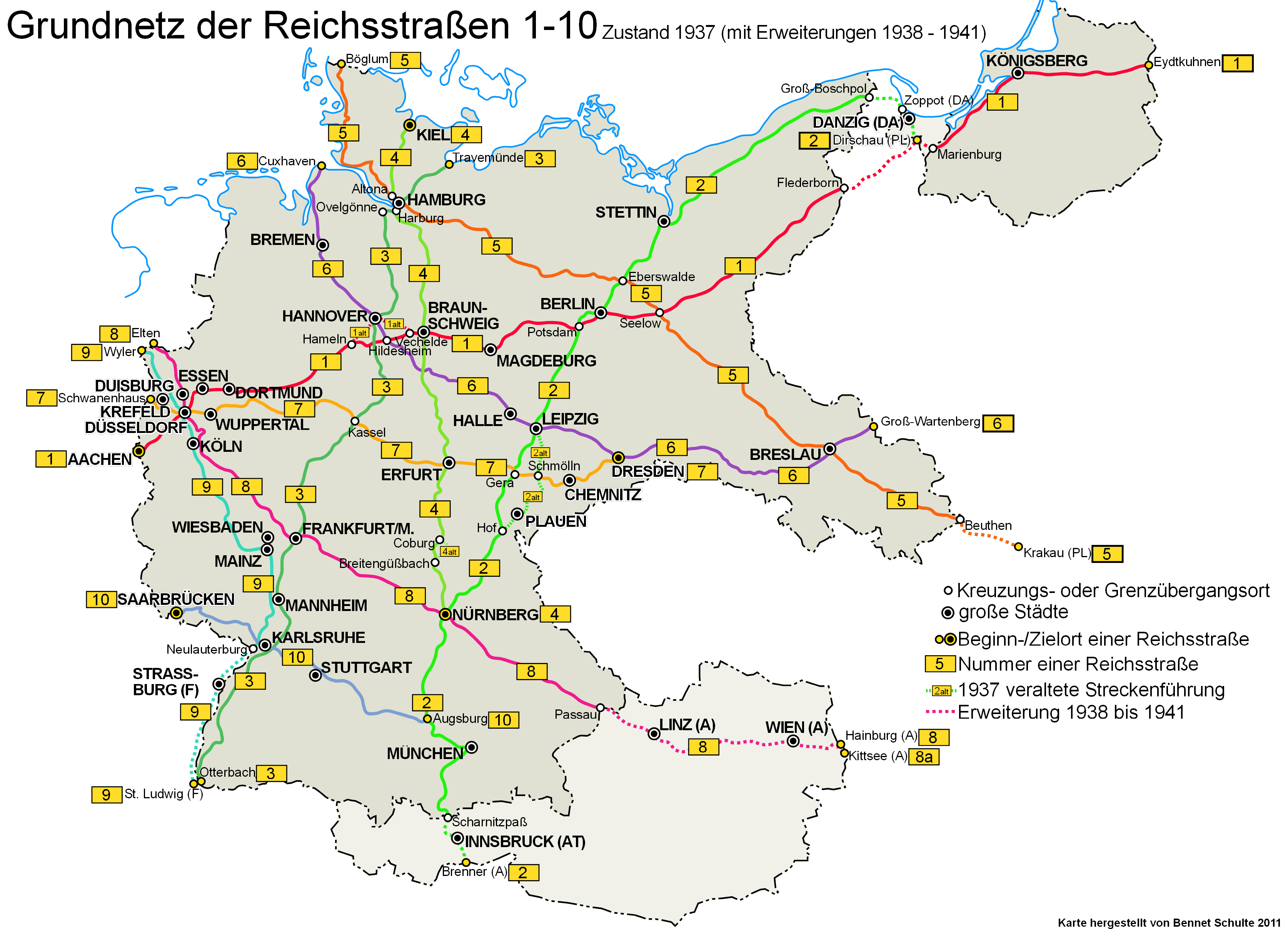 Basic network of the Reichsstrassen (number 1 to 10) in 1937 including addition 1938-1941